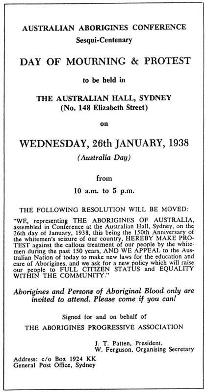 Poster announcing details of the Day of Mourning, a protest event conducted by Indigenous Australians in 1938.